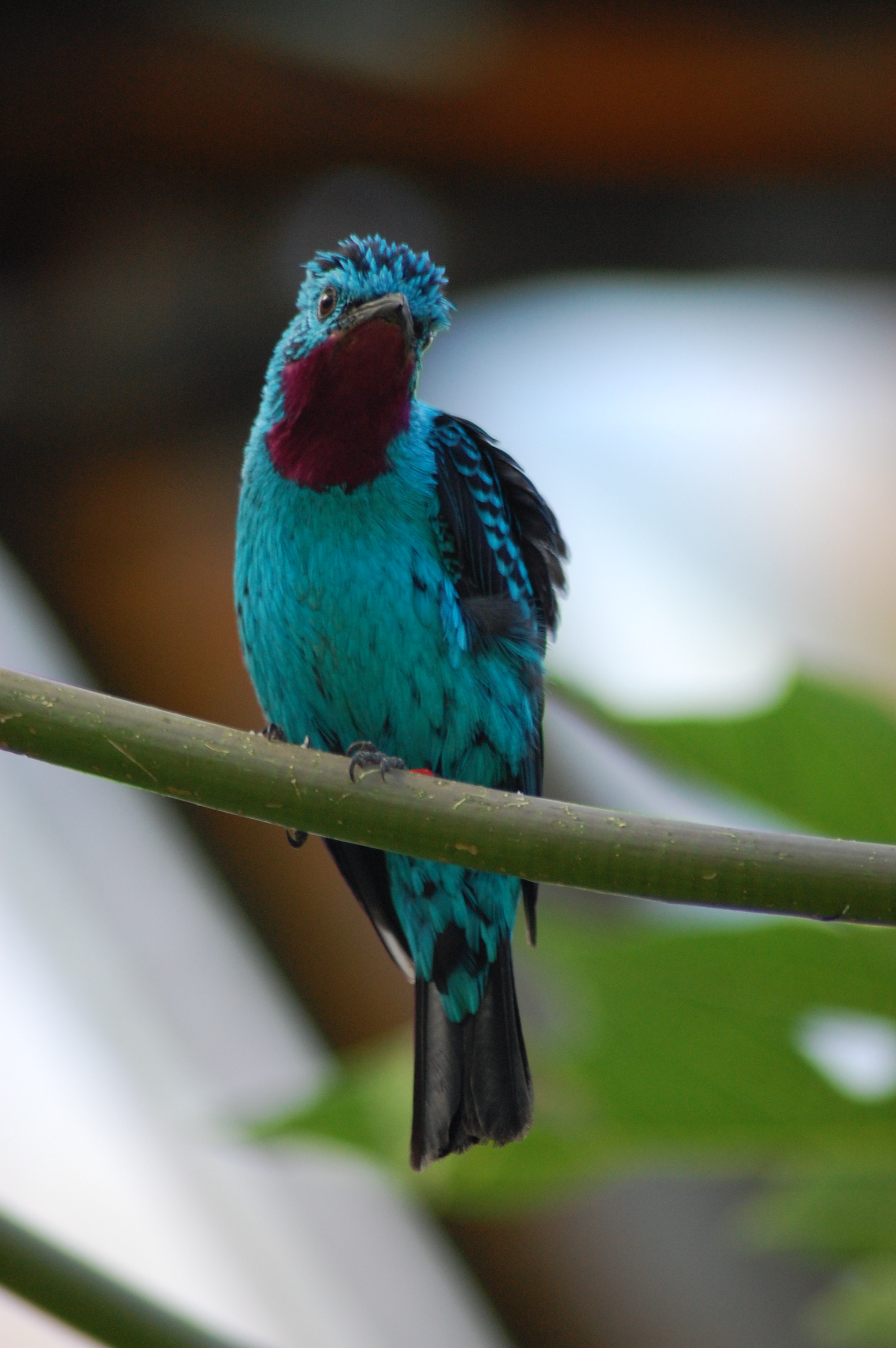 A male Spangled Cotinga at Burgers Zoo, Arnhem, Netherlands.